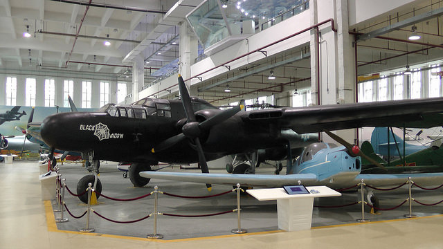 P-61B-15NO c/n 1234 AAF Ser. No. 42-39715 at the Beijing Air and Space Museum